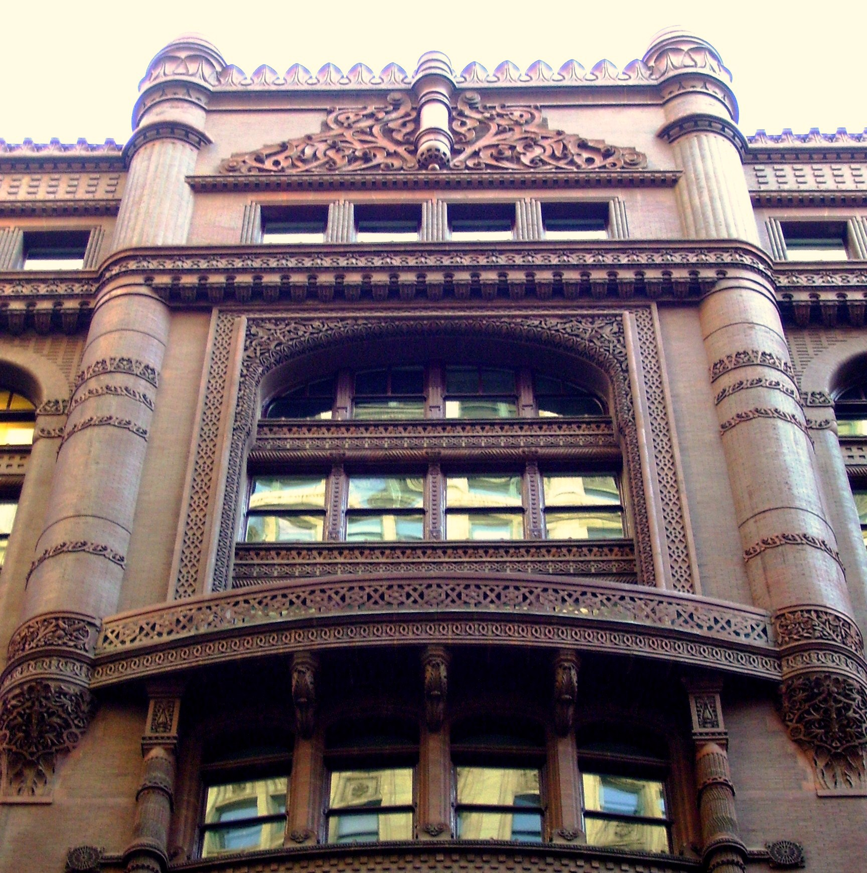 A detail of the top of The Rookery in Chicago, Illinois.